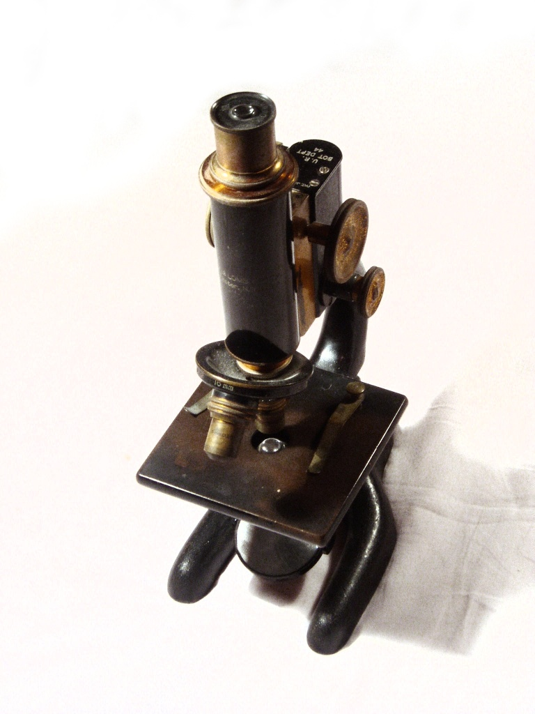 subst:noc By Richard Wheeler (Zephyris) 2007. A en:1915 Bausch and Lomb Optical optical microscope.